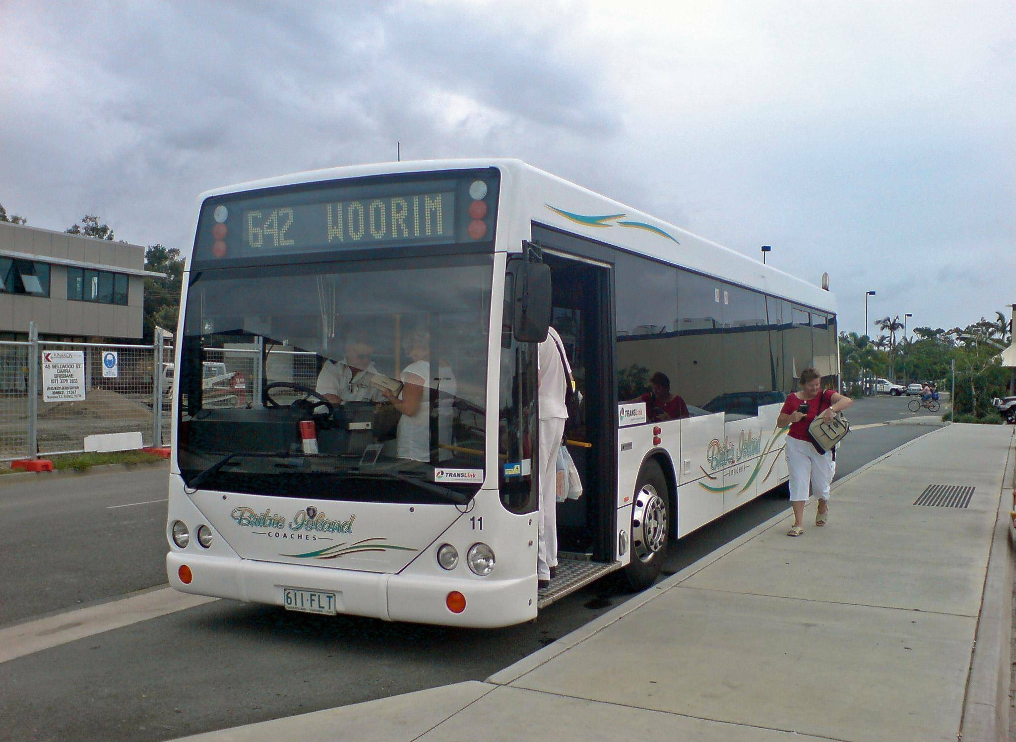 Bribie Island Coaches unit 11 at Bribie Centre. SM247My Talk 22:59, 2 March 2007 (UTC)